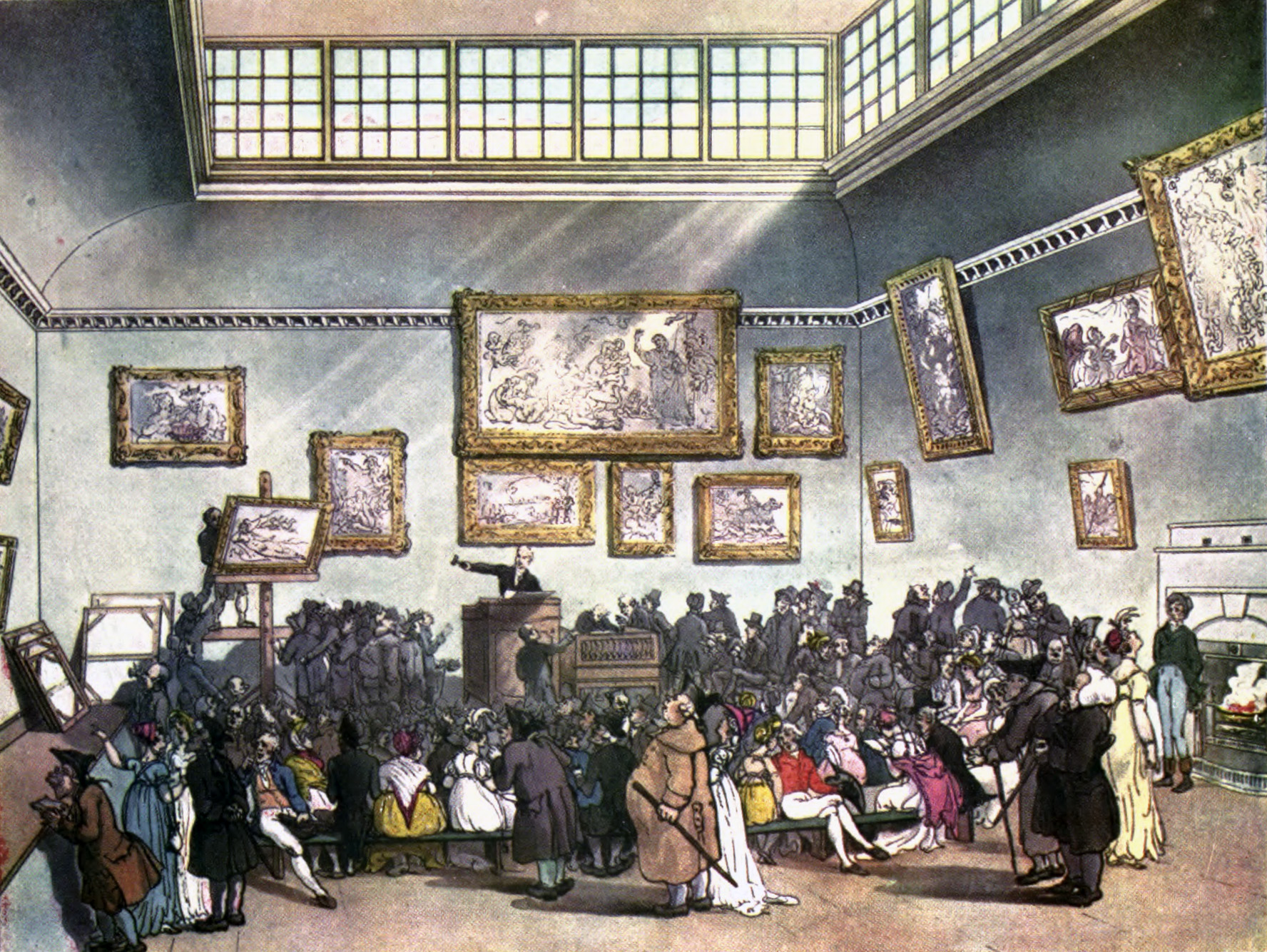 Auction Room, Christie's